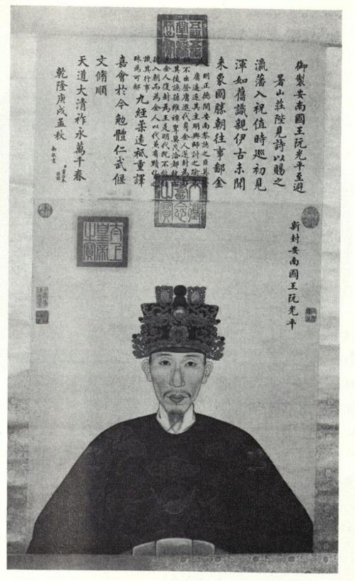 A portrait painting in watercolours on silk depicting the newly feudalised Annam king Ruan Guangping, wearing a crown and red robe designed with dragons in gold and an inscription dated 1790.